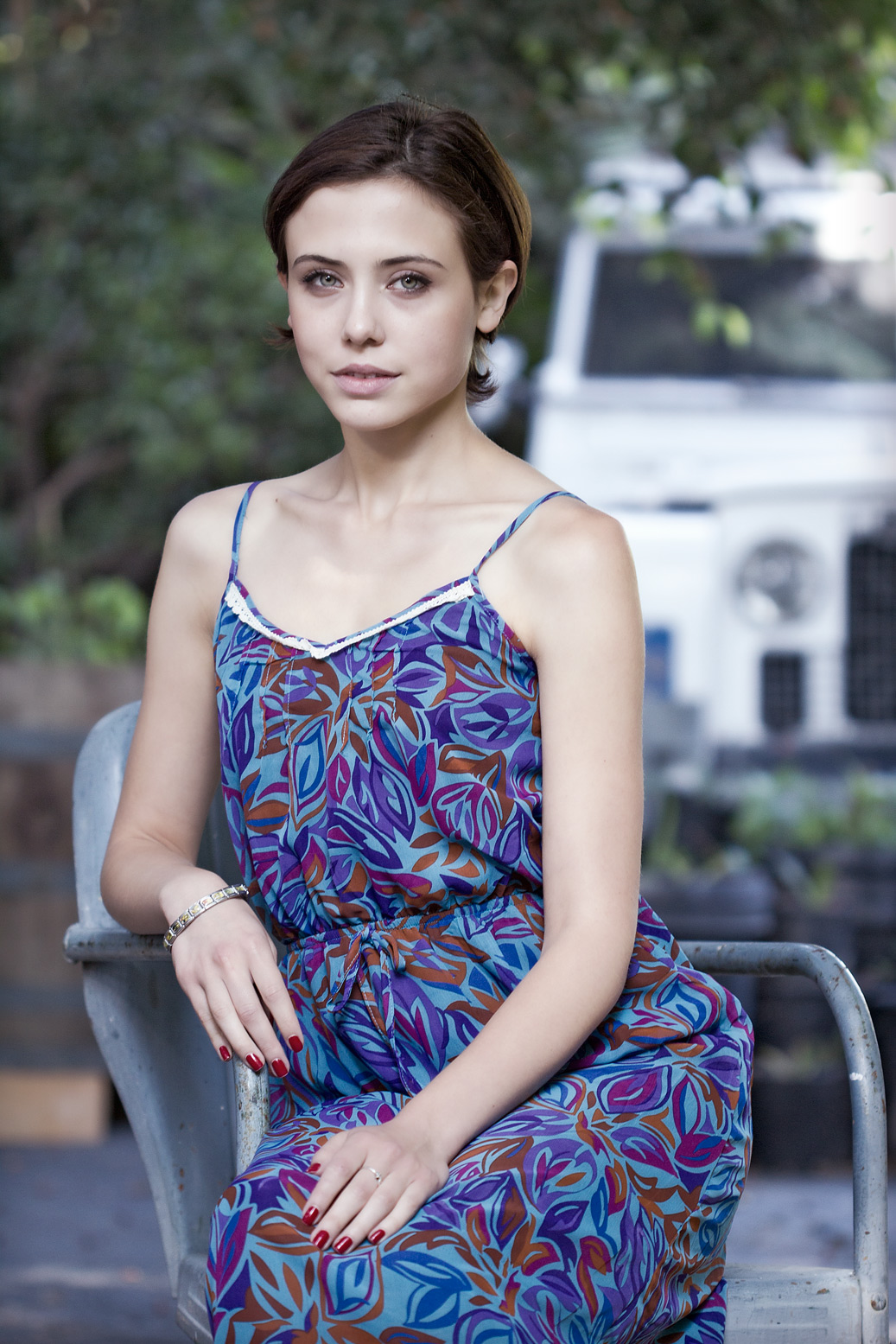 Leila Ryzvanauna ISMAILАVA (Leila Ryzvanauna Ismailli, born on July 28, 1989 in the city of Minsk, Belarus) is a Belarusian journalist, host of musical television programs, model. Photo: Rodelio Astudilo.